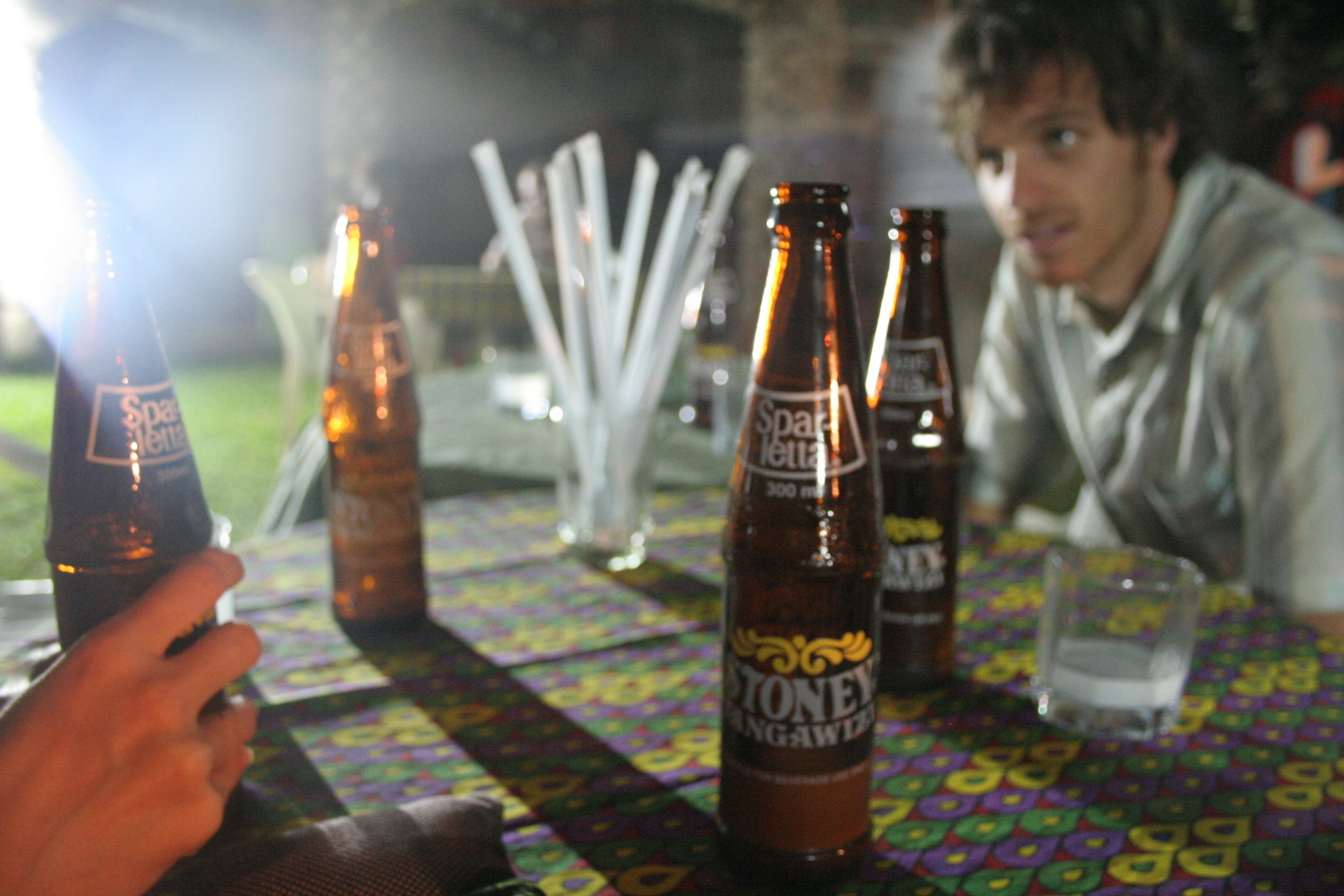 Enjoying some bottles of Stoney Tangawizi in Beni, North-Kivu, Democratice Republic of Congo